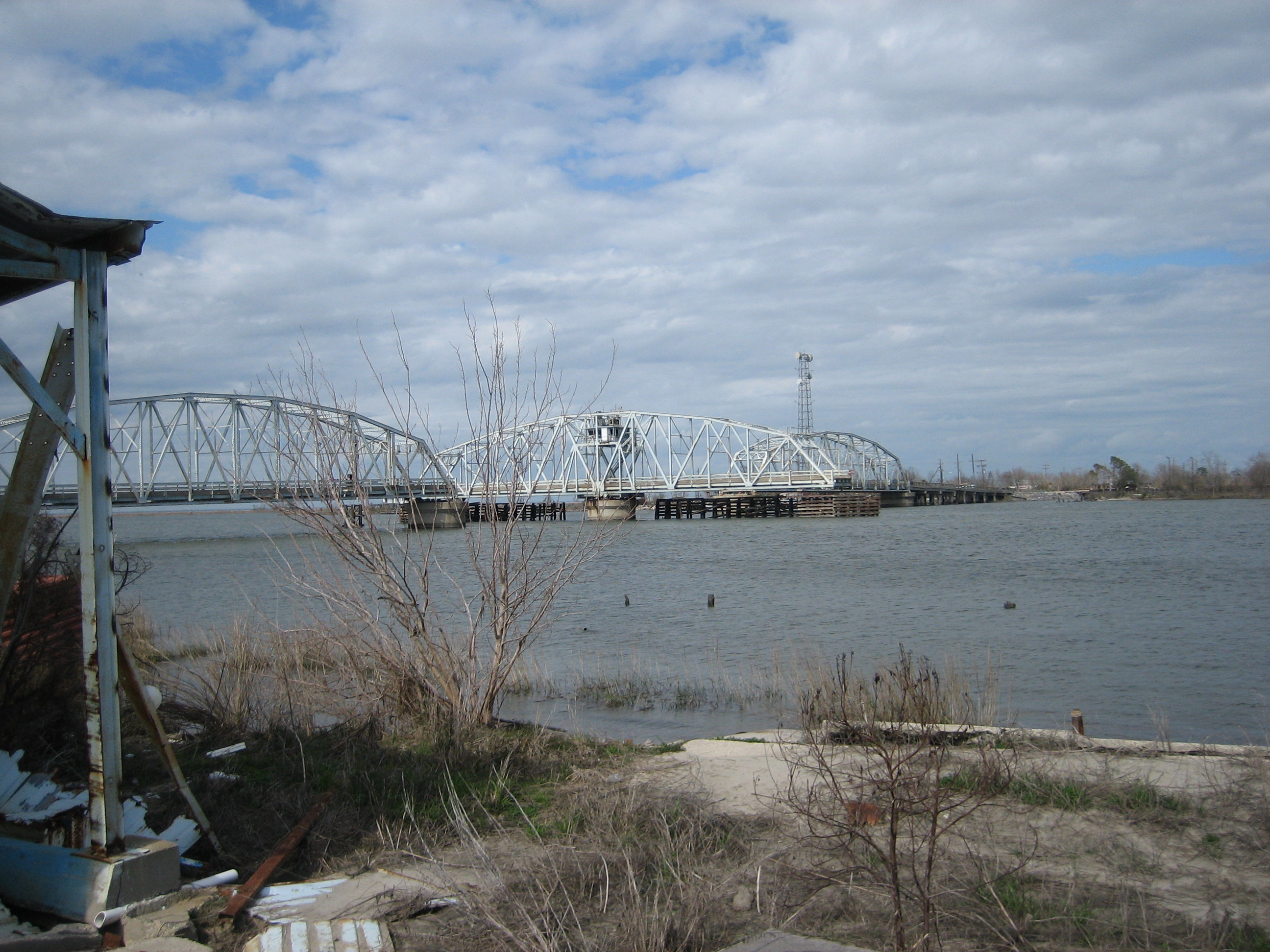 New Orleans after Hurricane Katrina: Venetian Isles neighborhood was devastated by storm surge flooding. View of Chef Pass & Highway 90 auto bridge, still closed.